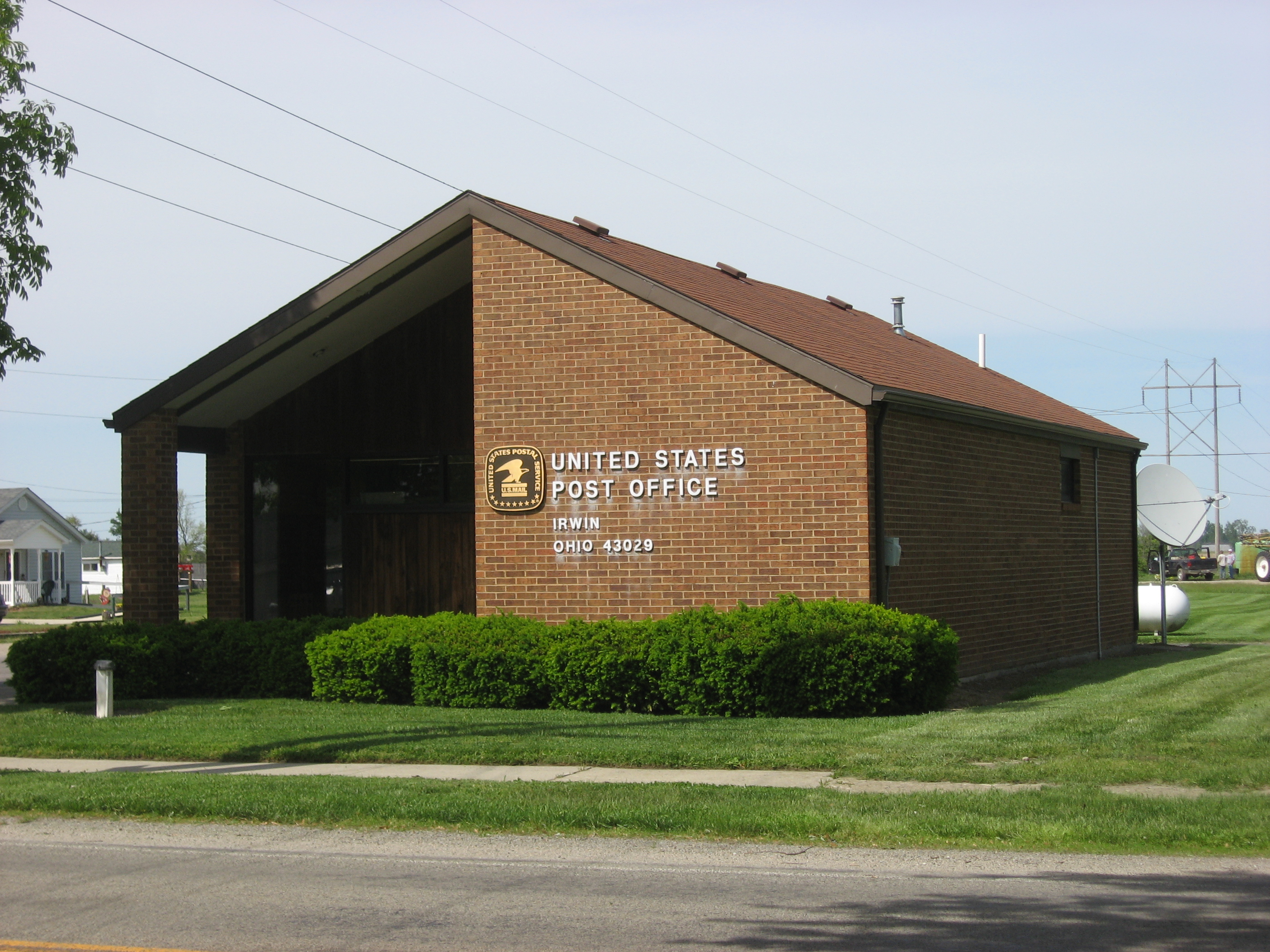 Front of the Irwin Post Office, located at 24176 State Route 161 in Irwin, an unincorporated community in Union Township, Union County, Ohio, United States.